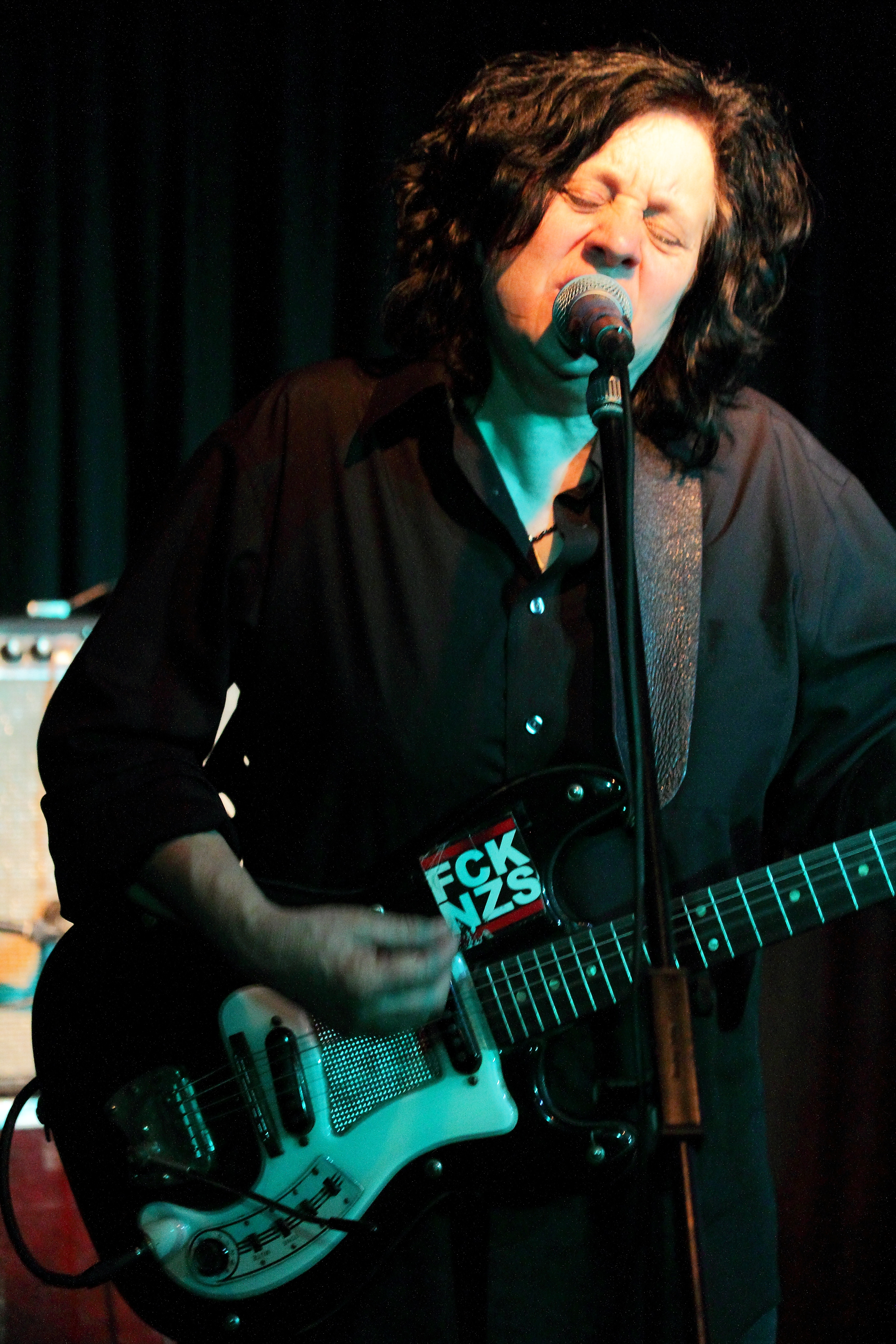 Singer and guitar player Thalia Zedek from Boston with her band in 2019 at Club W71, Weikersheim. Band members are Dave Curry (violin), Winston Braman (b) and Gavin McCarthy (dr).